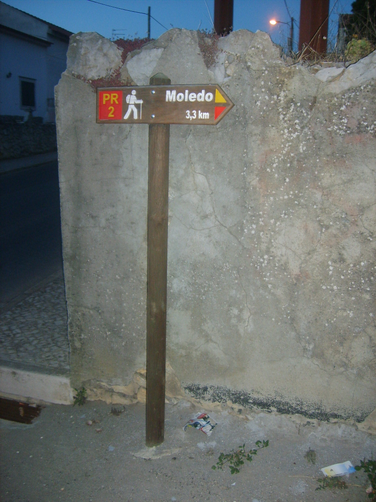 PR2, São Bartolomeu dos Galegos